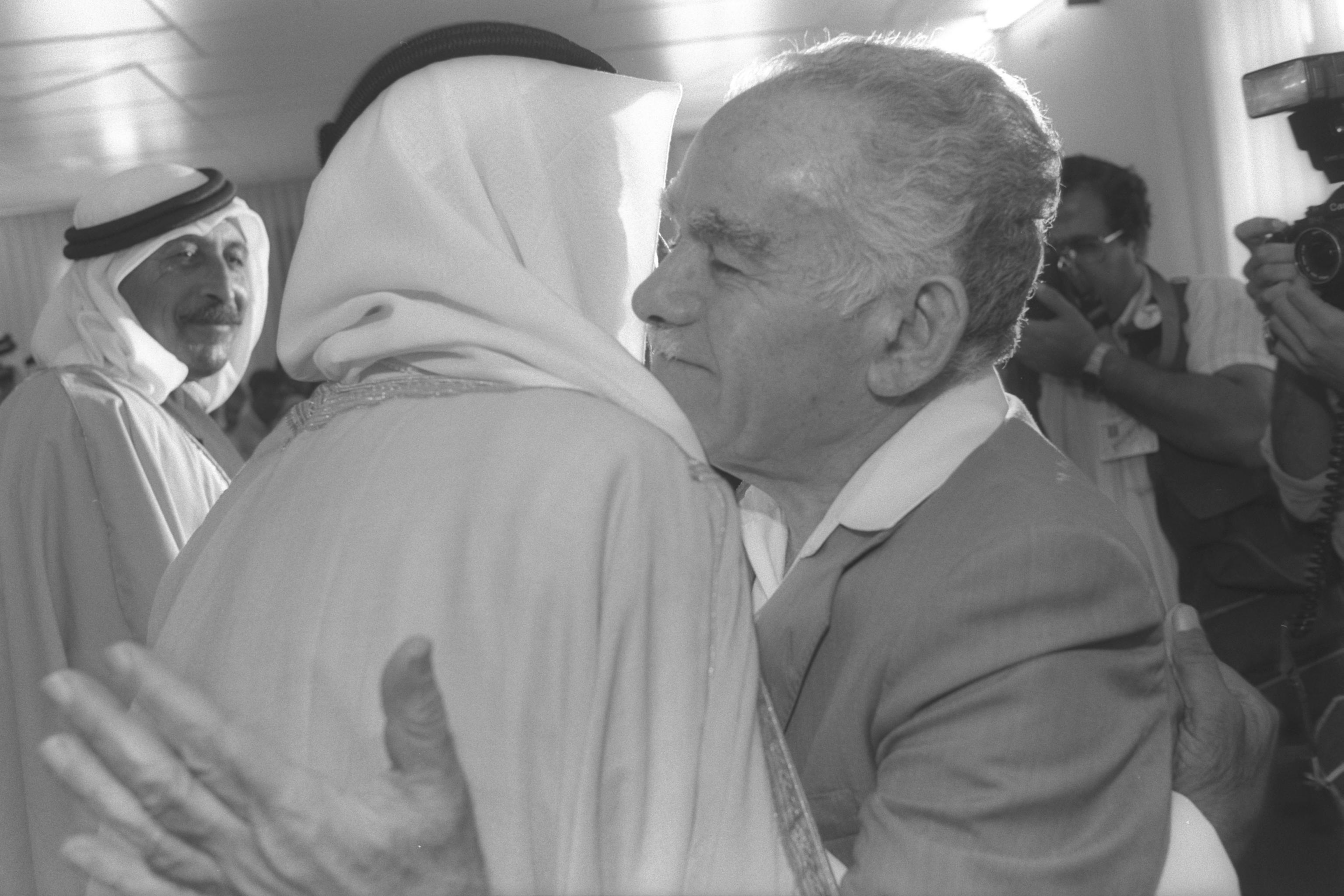 P.M. Yitzhak shamir embracing sheikh aude abu-muammar during his meeting with 15 bedouin sheikhs at his bureau in jerusalem (10/10/1988). פגישת ראש הממשלה עם שייחים בדואים במשרד רהמ בירושלים. Photo: AYALON MAGGI.